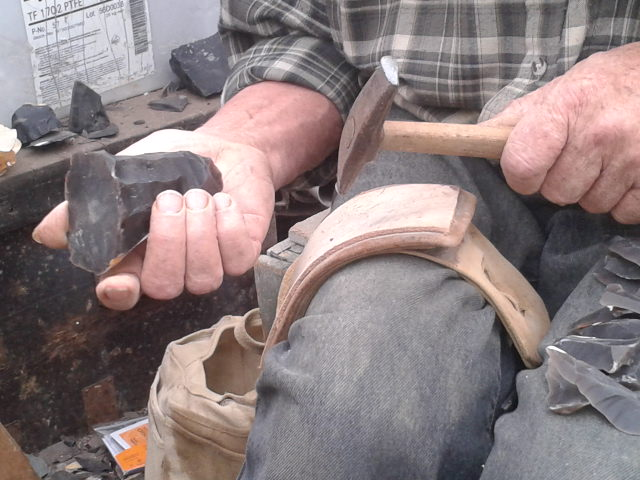 The core is first prepared to provide consistent lengths of flint. 2 or 3 gunflints can be produced per length.